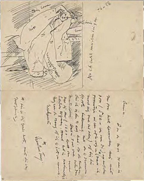 Brief van Breitner aan Willem Witsen met schets van het Meiske in witte kimono (Geesje Kwak)